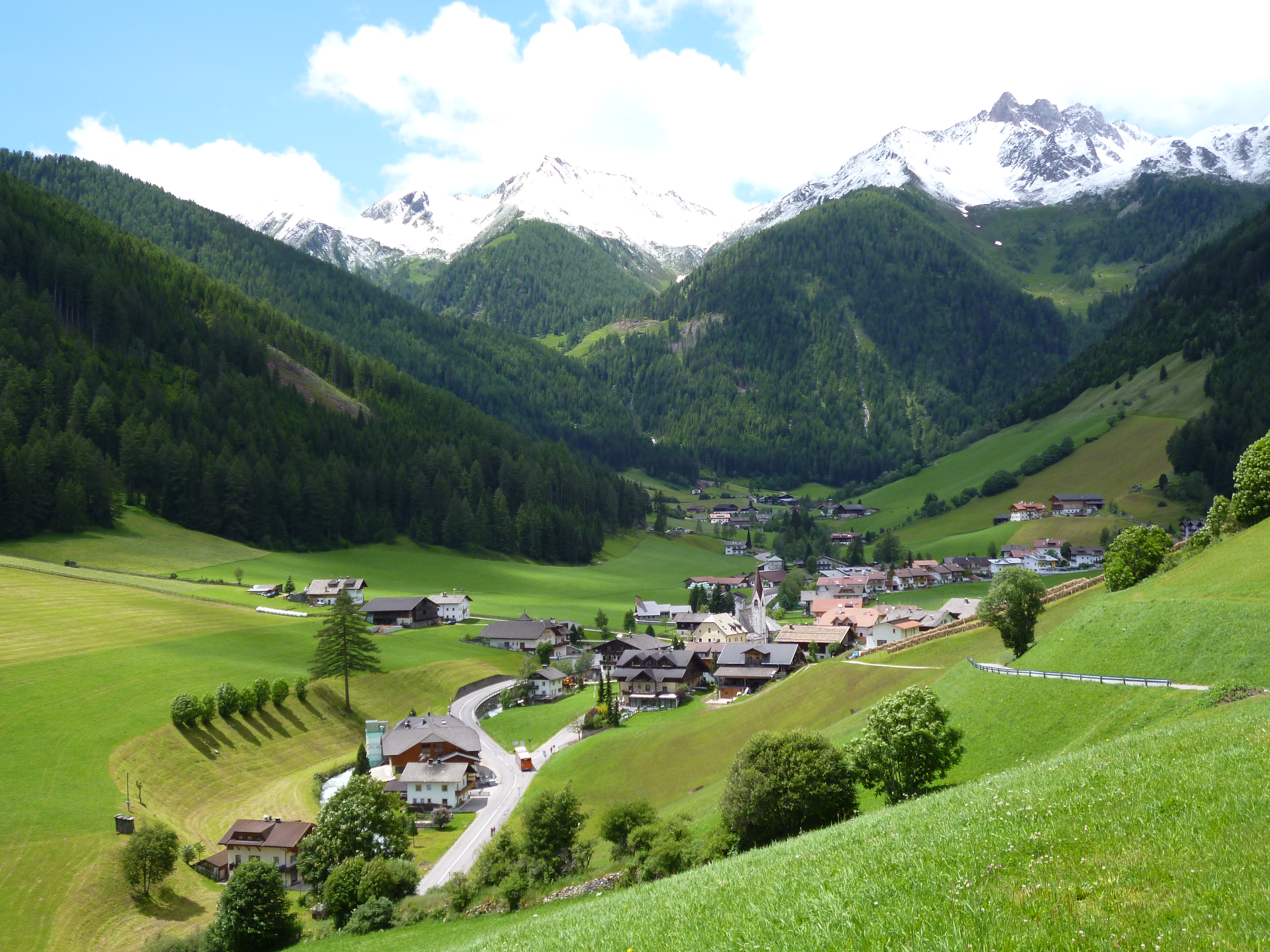 Weißenbach from northeast